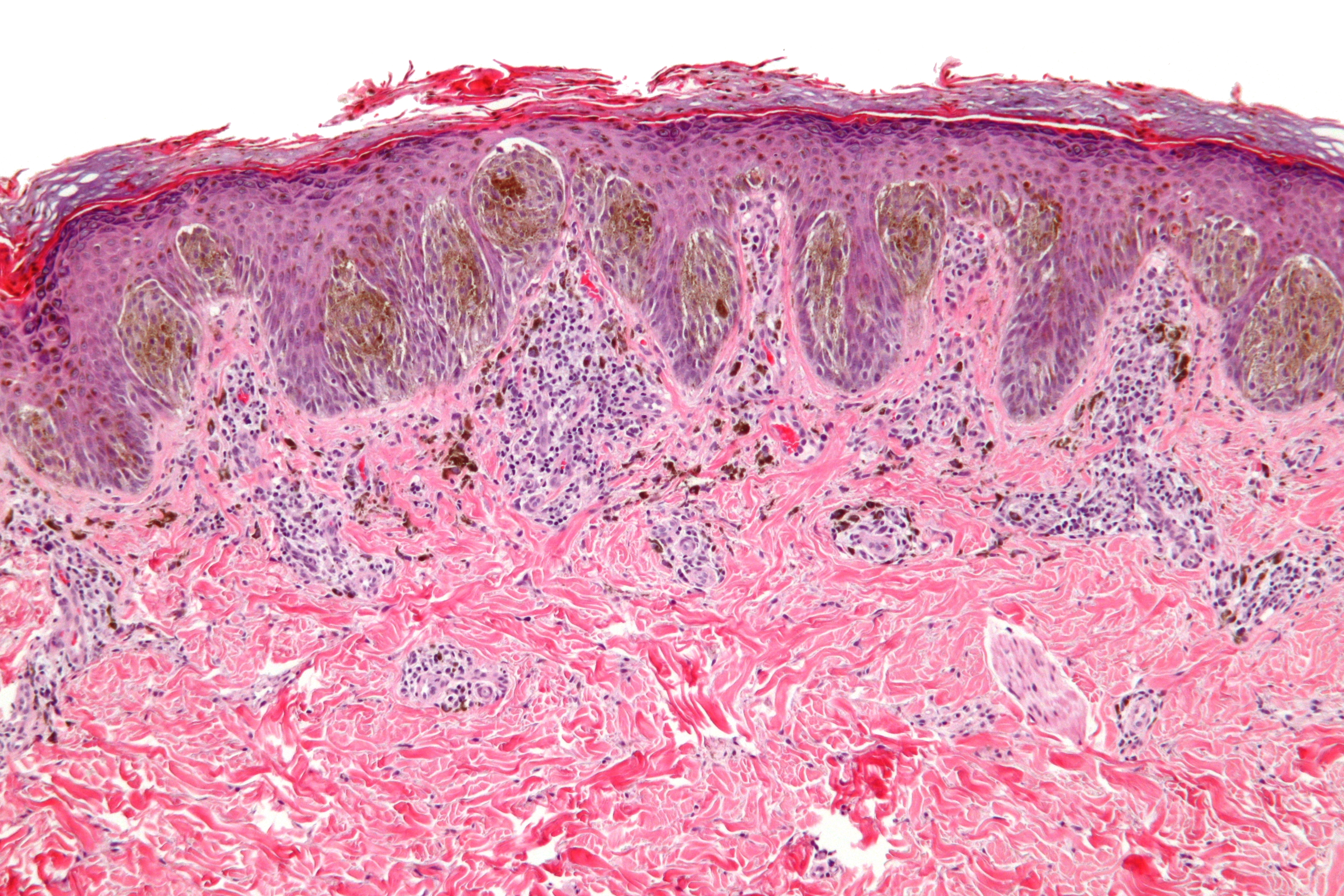 Intermediate magnification micrograph of a Spitz nevus, also known as an epithelioid and spindle-cell nevus. H&E stain. Related images Low mag. Intermed. mag. High mag.